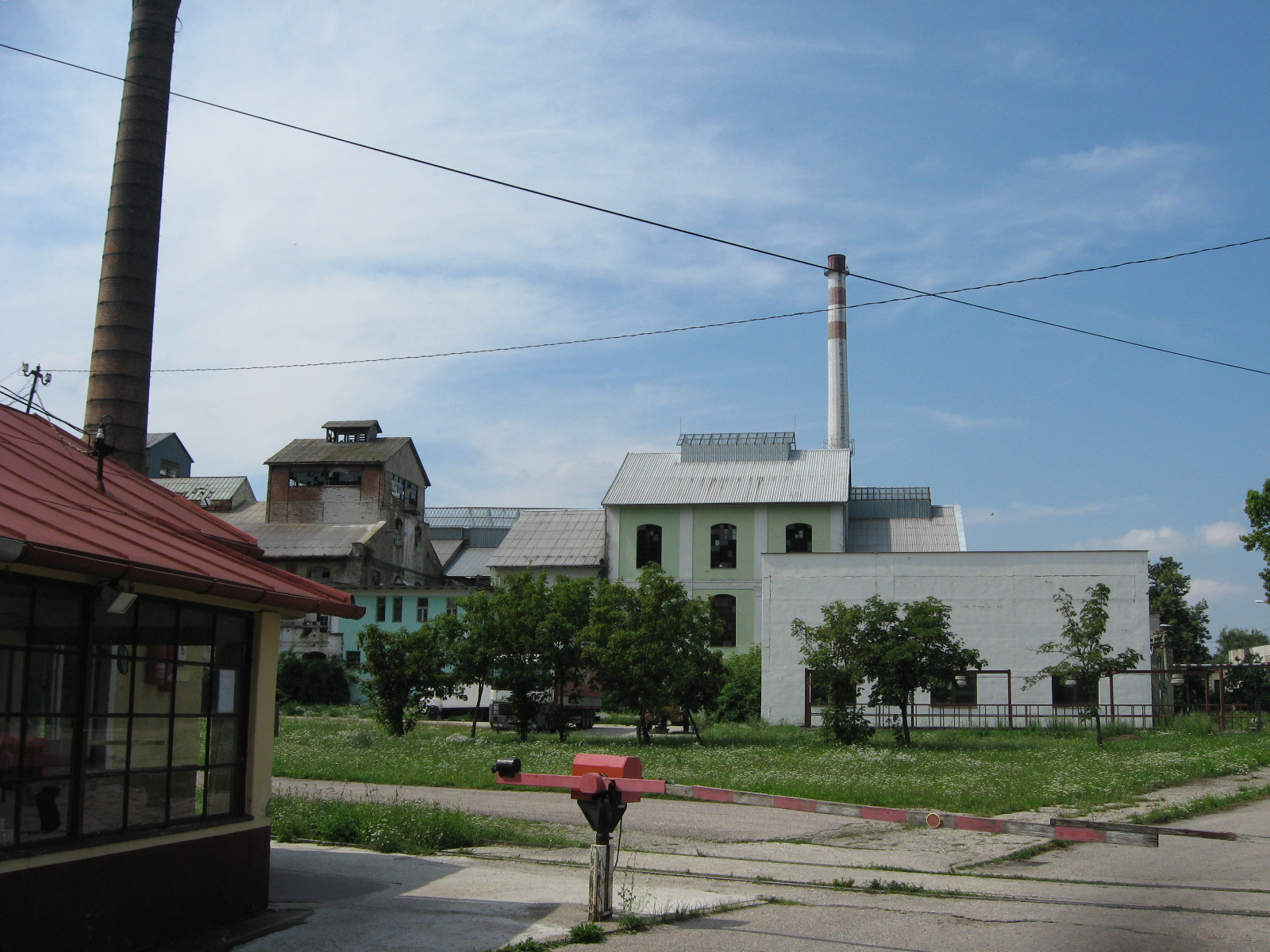 The buildings of former sugar factory in Šurany, Slovakia.